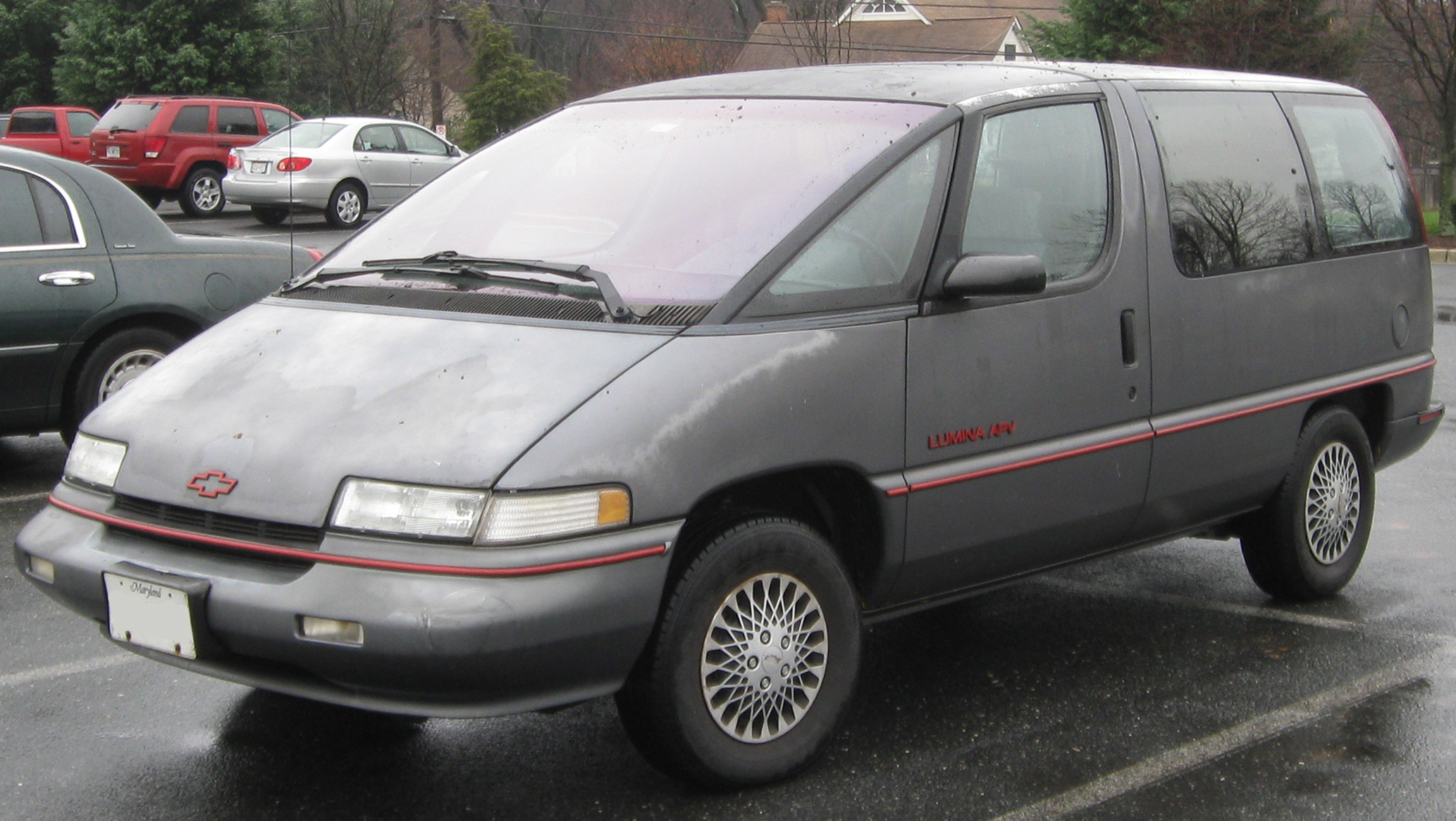 1989-1993 Chevrolet Lumina APV photographed in Cloverly, Maryland, USA.